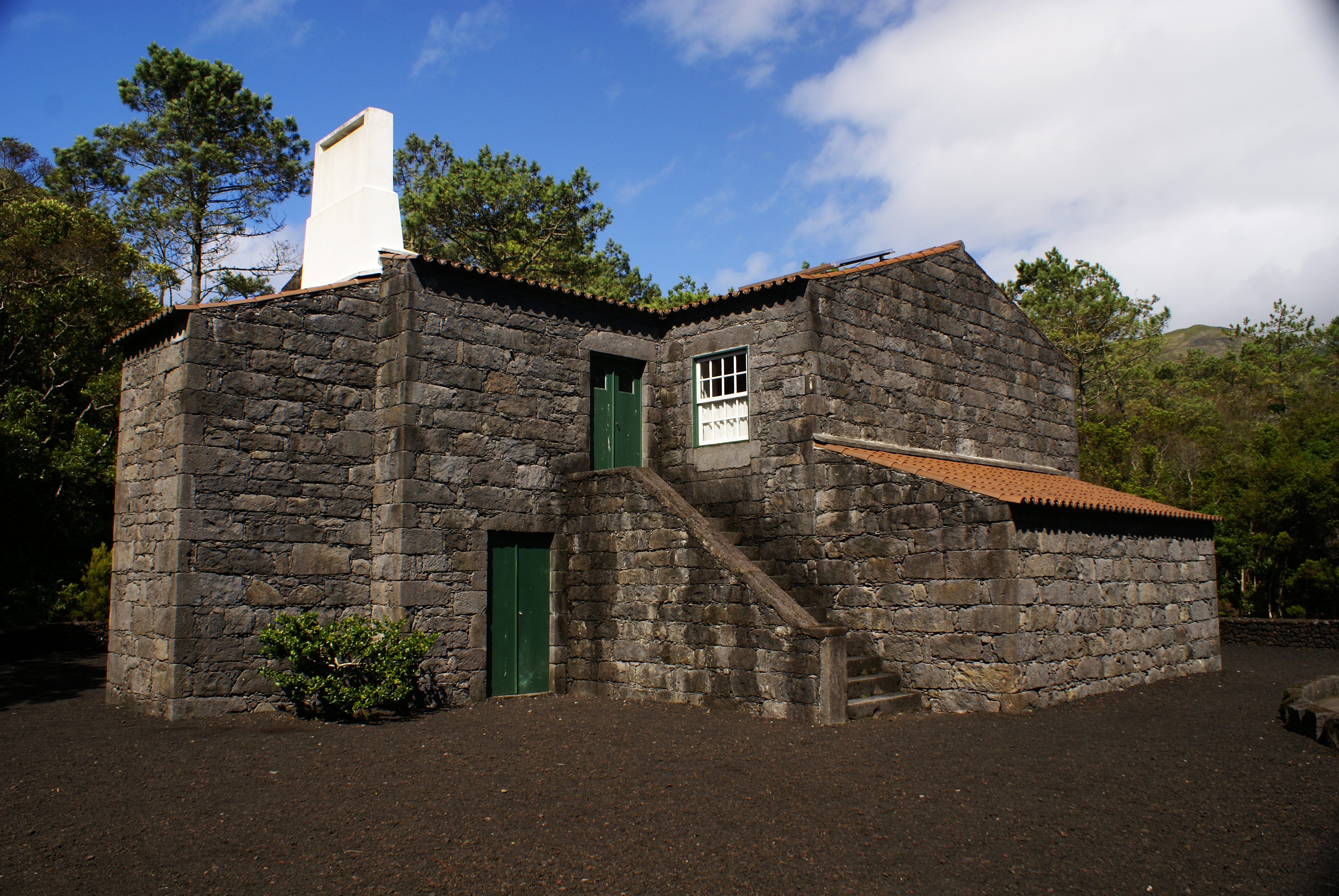 Reserva Florestal de Recreio do Capelo, 2 concelho da Horta, ilha do Faial, Açores, Portugal